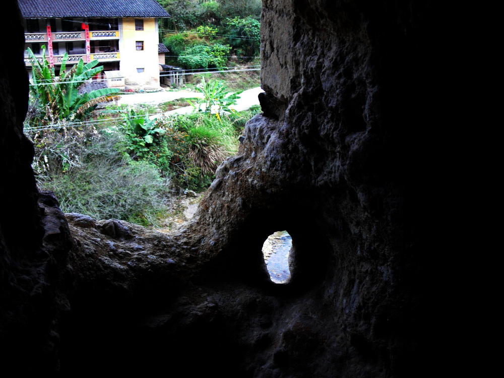 Gun hole of Chengqilou